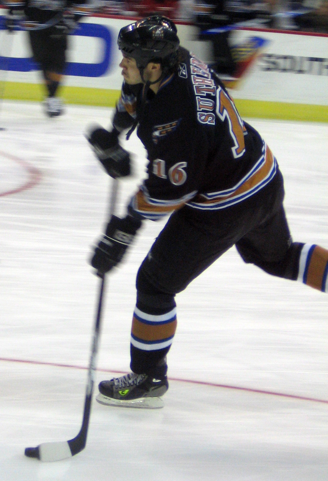 Taken before the Capitals' game against the Carolina Hurricanes on January 27, 2007.